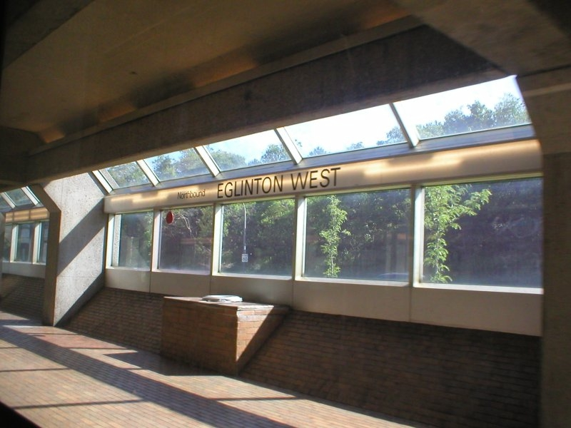 Northbound platform at Eglinton West station in Toronto